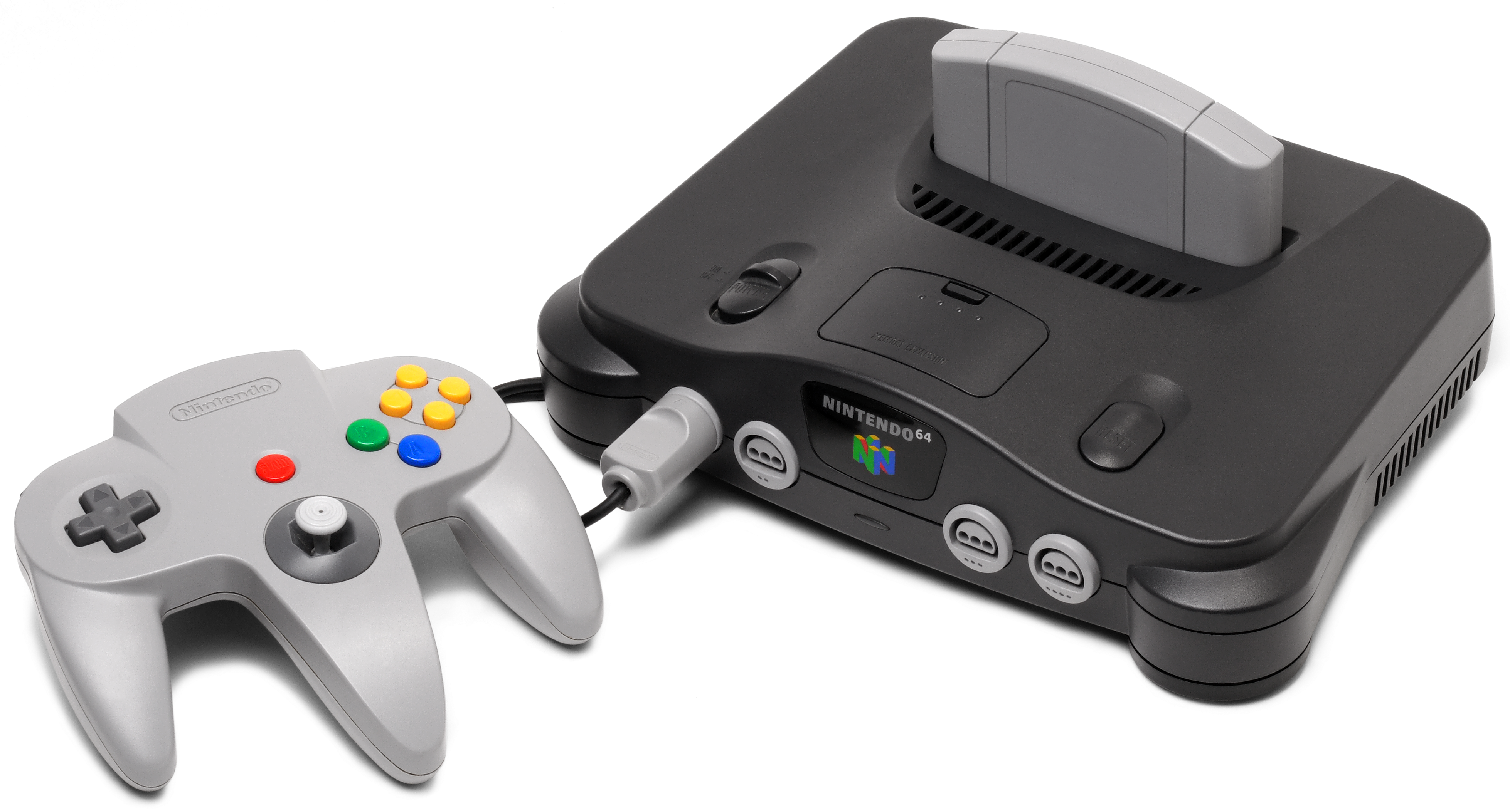 A Nintendo 64 video game console shown with gray controller. This is the PNG version.